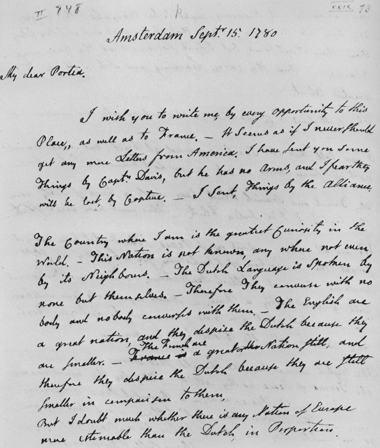 Letter hand-written by John Adams during his Amsterdam period to Abigail Adams.